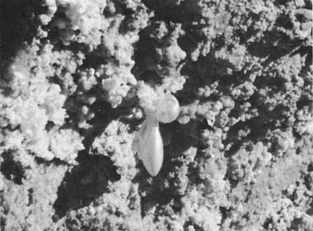 Hydromagnesite bubbles (a form of moonmilk). These bubbles have wall thicknesses in the vicinity of 3 to 4 thousandths of an inch and are known only to be found in Jewel Cave.